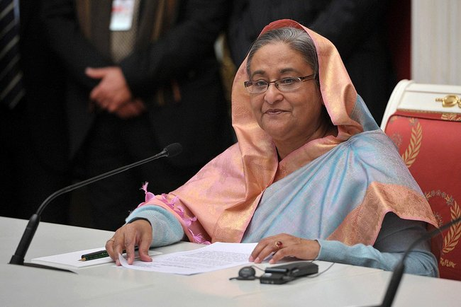 Vladimir Putin held talks with Prime Minister of Bangladesh Sheikh Hasina (Moscow; 2013-01-15).